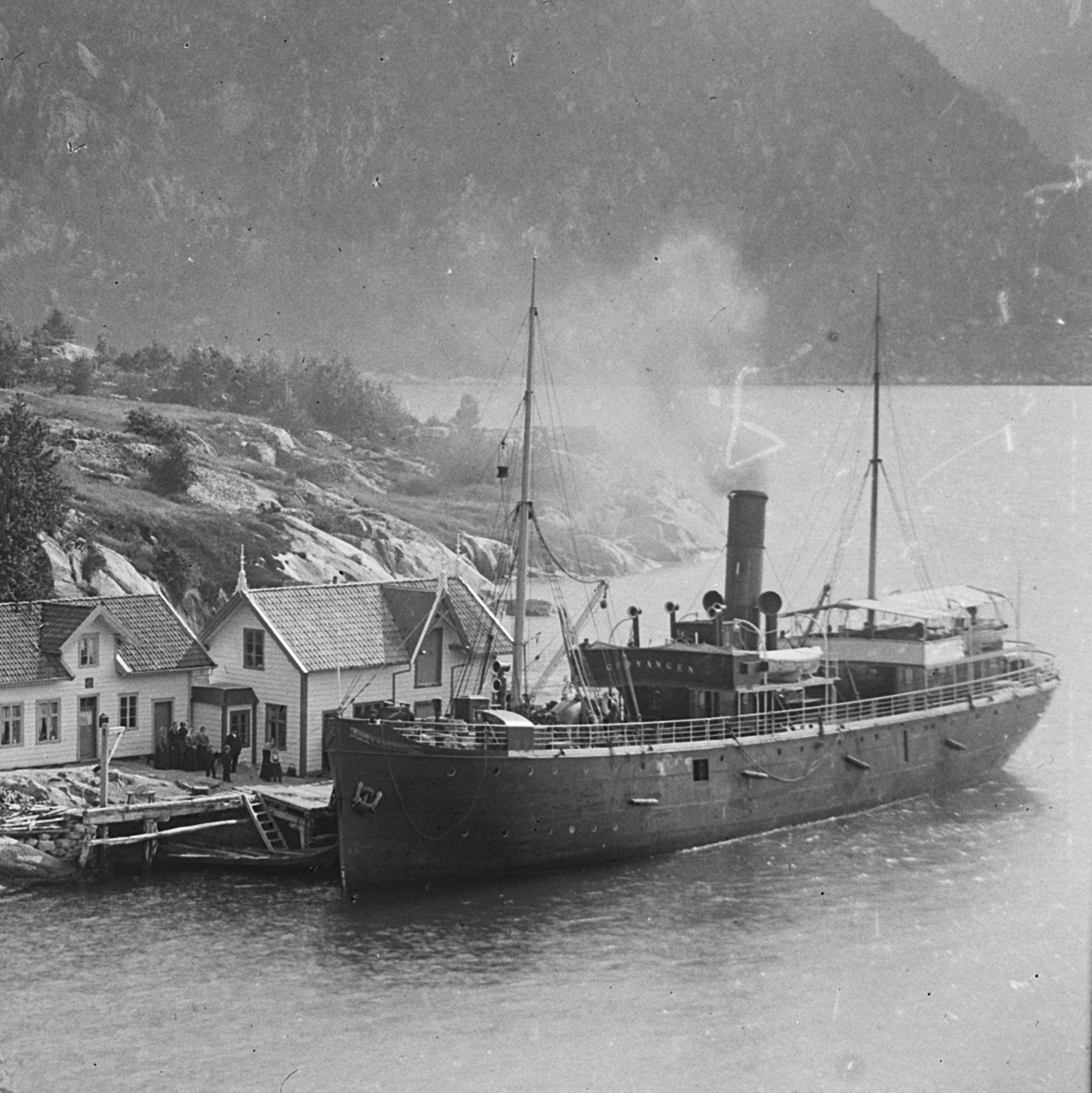 Identifier: SFFf-1988009.288461 Medium: Glass plate negative. Extent: 13 x 18 cm.